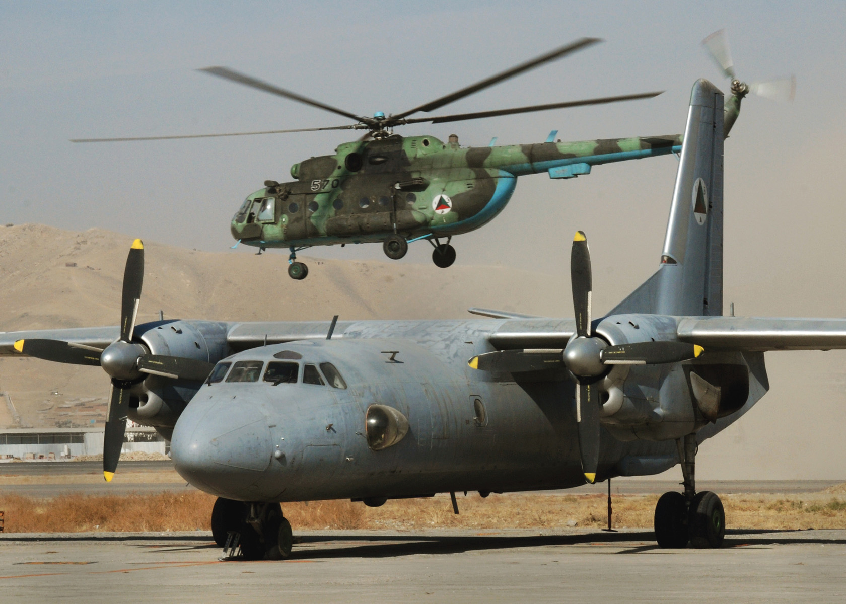 An Afghan national army air corps MI-17 takes off past an AN-26 at the Kabul Air Base, Afghanistan.